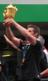 richie mccaw holding the webb ellis cup during the victory parade